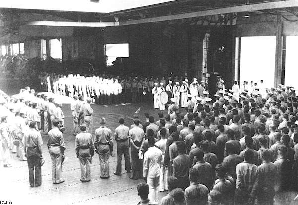 The crew of the U.S. Navy aircraft carrier USS Enterprise (CV-6) conducts burial-at-sea on 27 October 1942, for 44 crewmen killed during the Battle of the Santa Cruz Islands the day before.